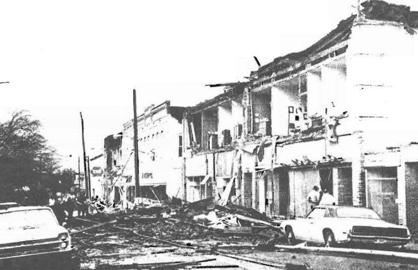 Heavy damage to buildings in downtown Jasper, Alabama